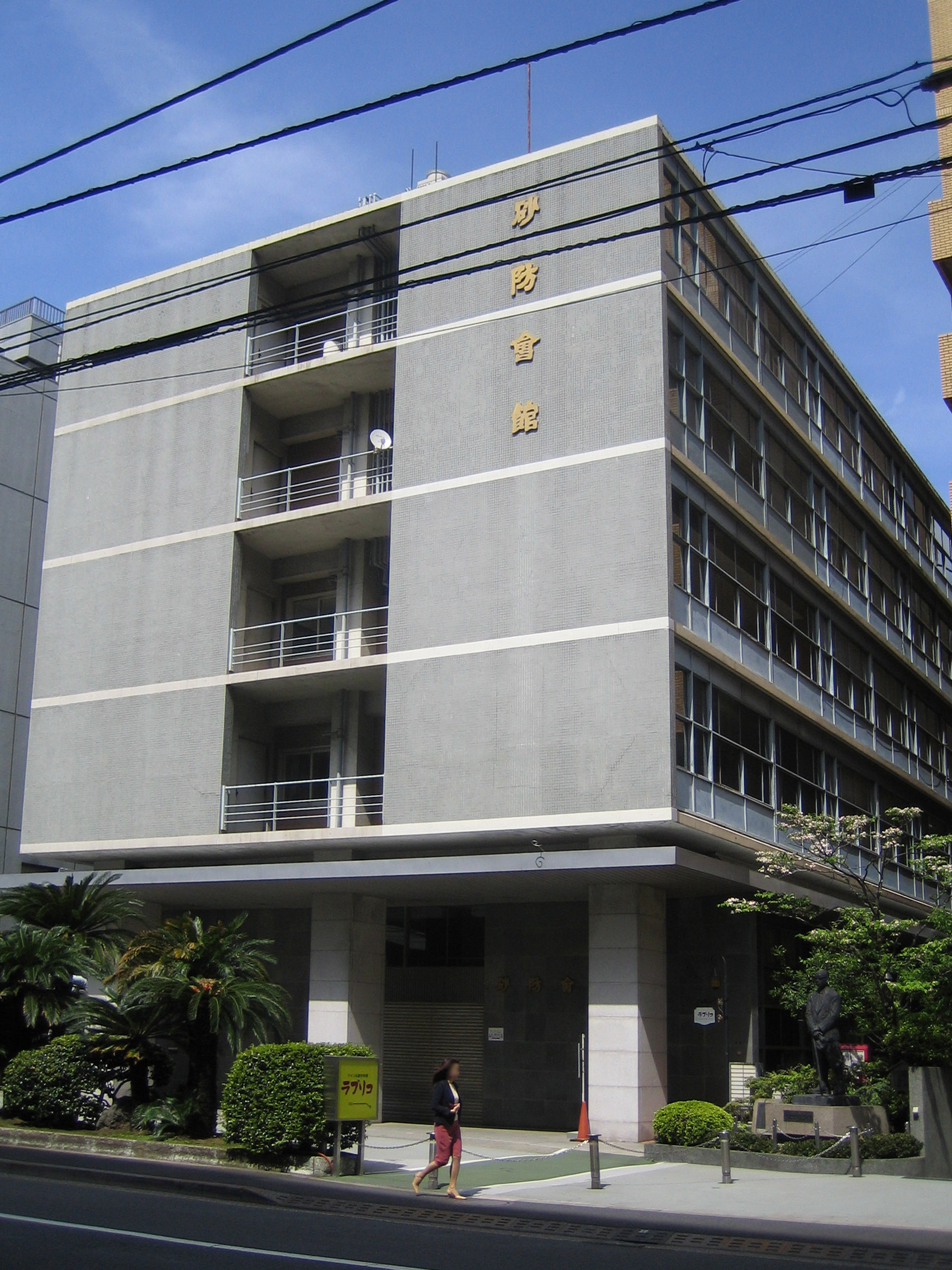 Sabo Kaikan (砂防会館:literally, “debris-slide protection hall”), in Chiyoda, Tokyo, Japan